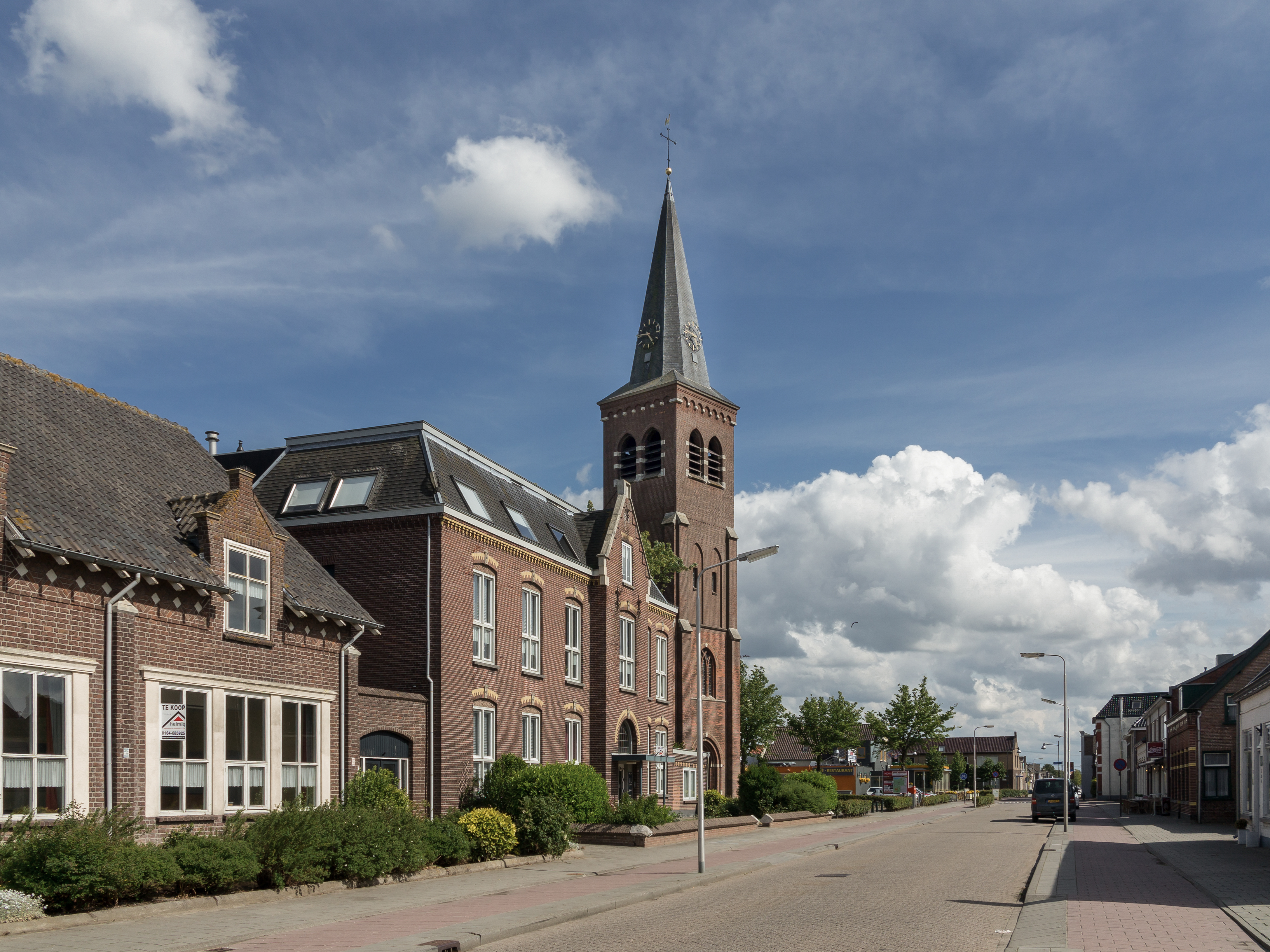 Kruisland, church (de Heilige Gregoriuskerk) in the street